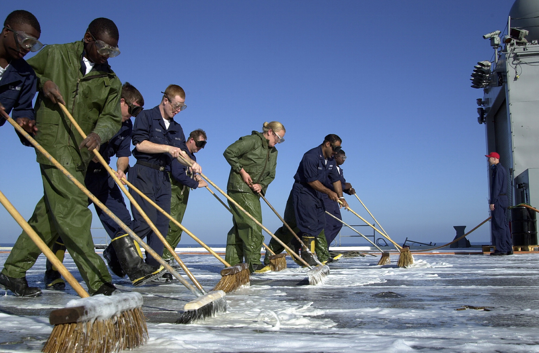 At sea aboard USS La Salle (AGF 3) May 30, 2002 -- The flight deck crew aboard the Sixth Fleet Flagship scrub the flight deck during a scheduled underway period. Ships receive cleaning and material inspections by the crew in port and at sea. The harsh environments at sea require a continuous effort by all hands to battle the effects of corrosion on the ships exposed superstructure, weapon and communication systems, and deployed aircraft. U.S. Navy photo by Photographer’s Mate 2nd Class Todd Reeves. (RELEASED)